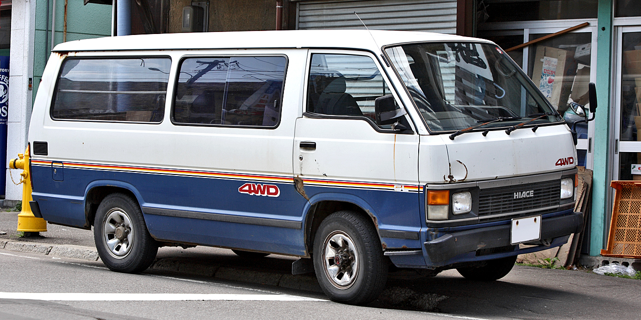 Toyota Hiace Long Van 4WD 2.4D GL ( LH66V )